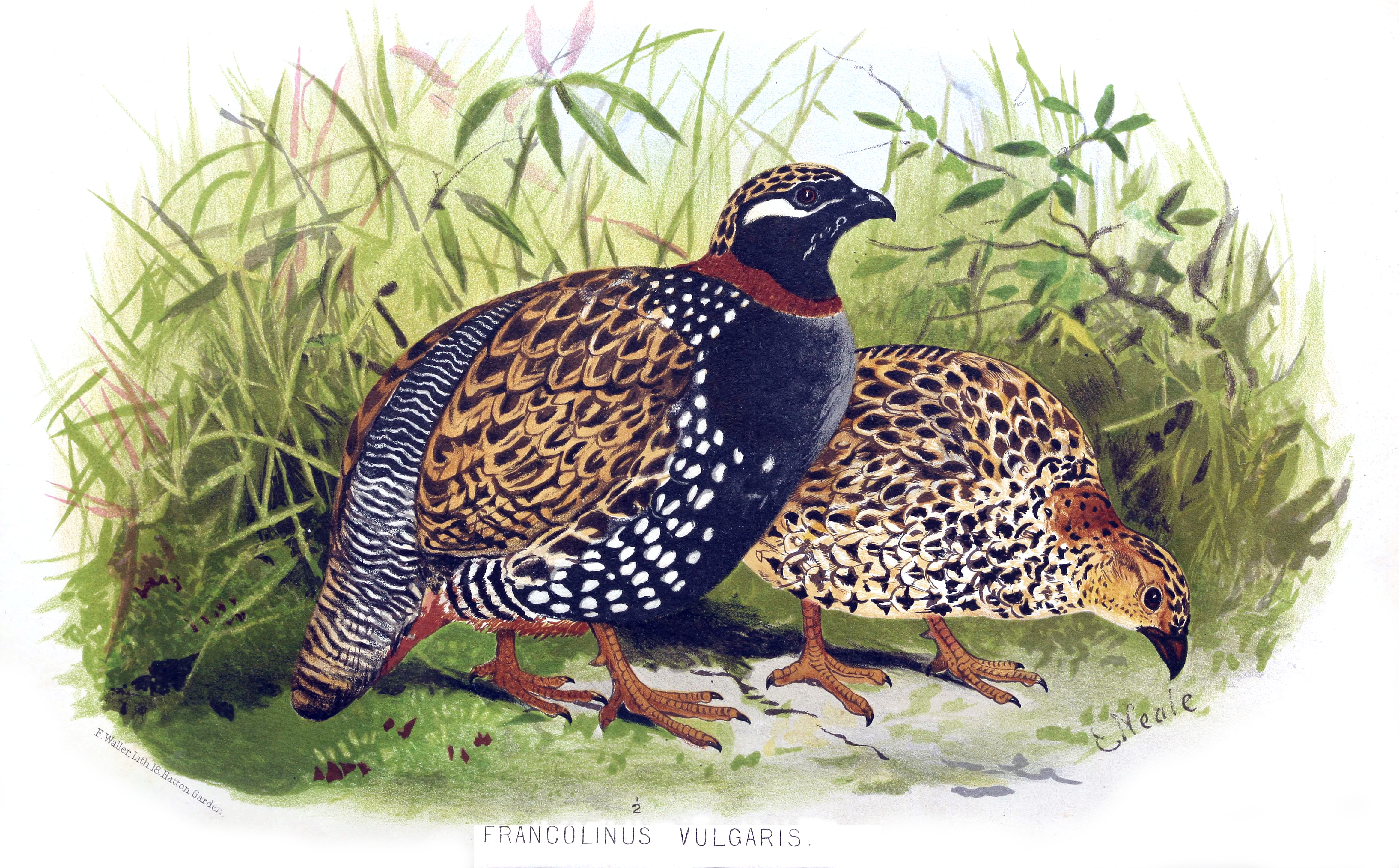 Painting of Black Francolin, Francolinus francolinus